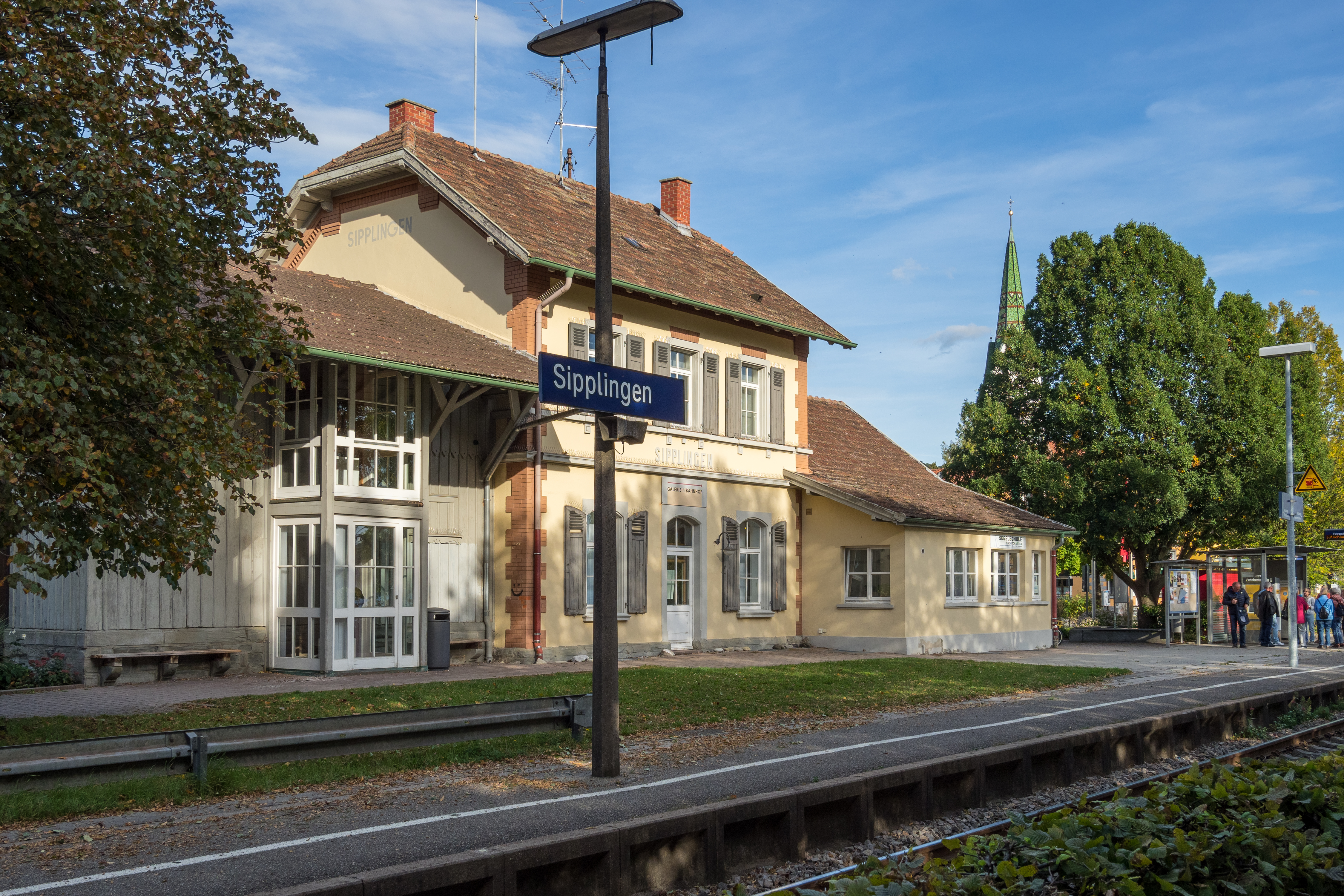 Sipplingen railway station (Lake Constance district)